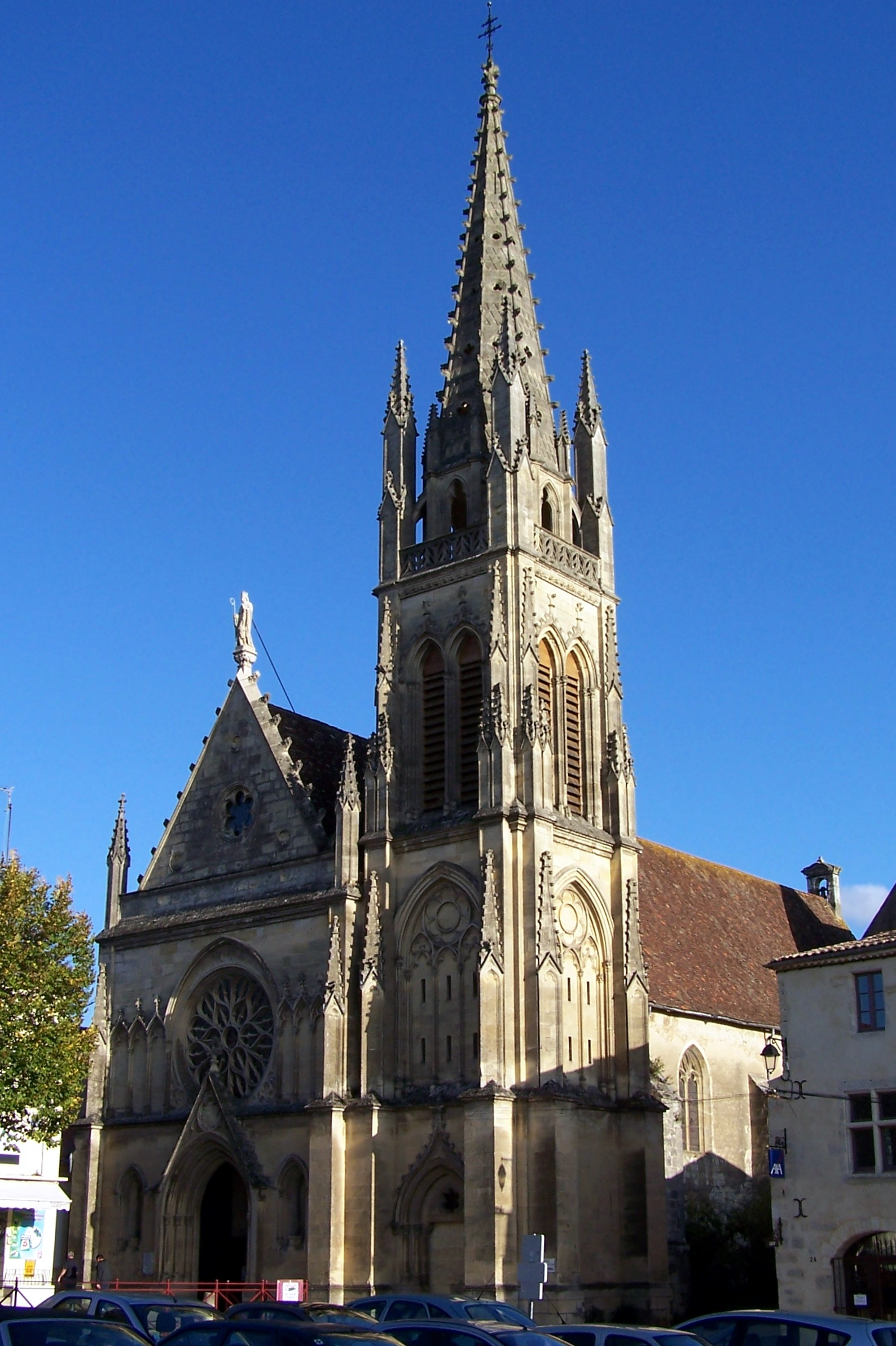 Church of Cadillac (Gironde, France)